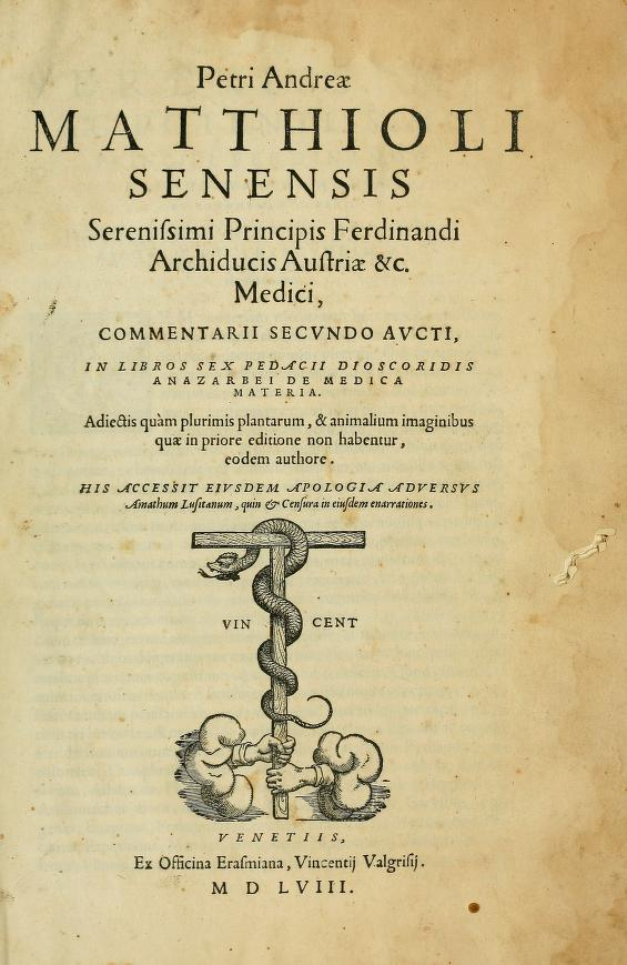 Title page, Matthiolus, Commentarii, 2nd Latin ed., 1558